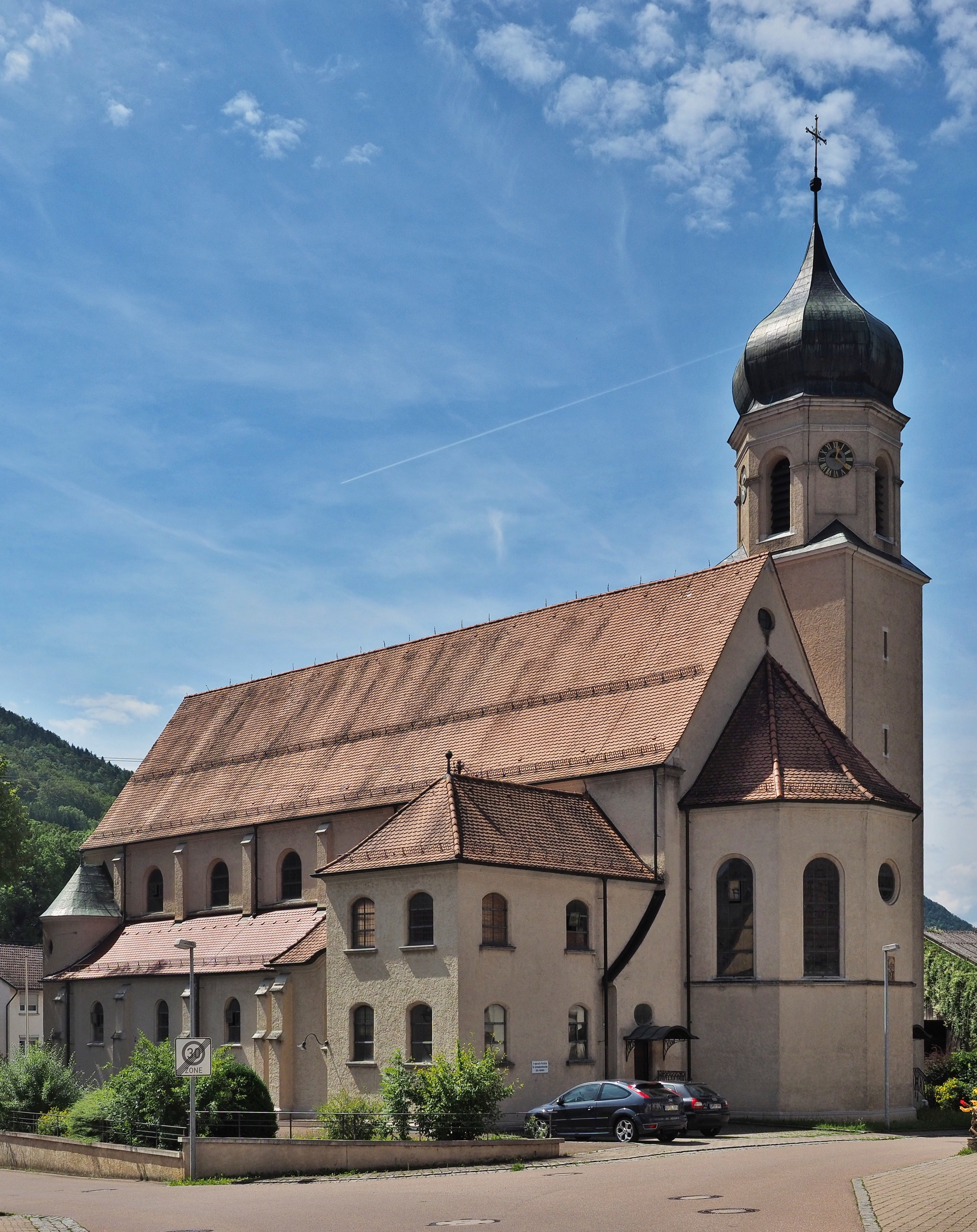 Roman-Catholic St Martinus Church in Nenningen, Lauterstein, Germany